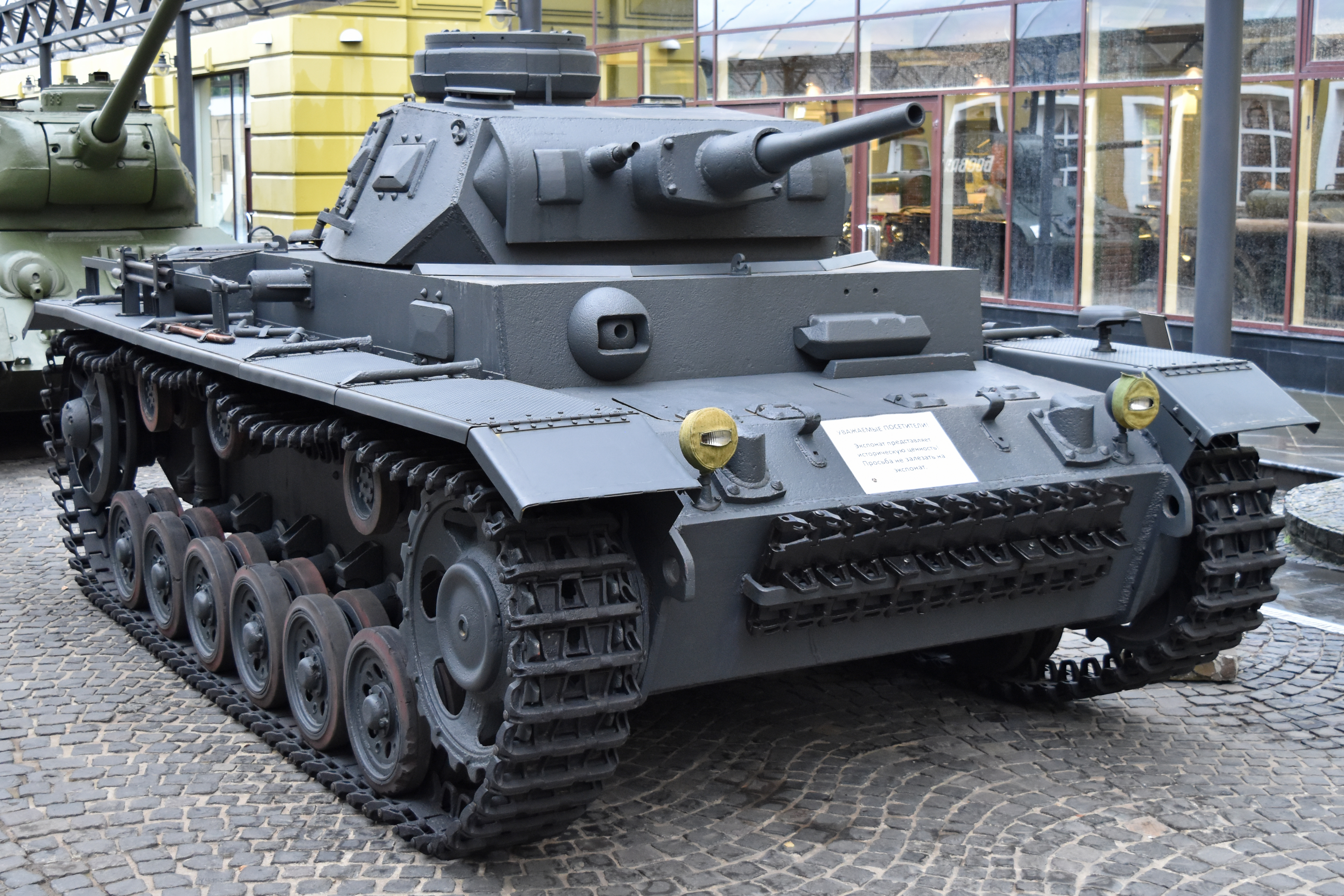 German WW2 era Medium Tank On display at the Vadim Zadorozhny Technical Museum, Arkhangelskoye, Moscow Oblast, Russia. 26th August 2017